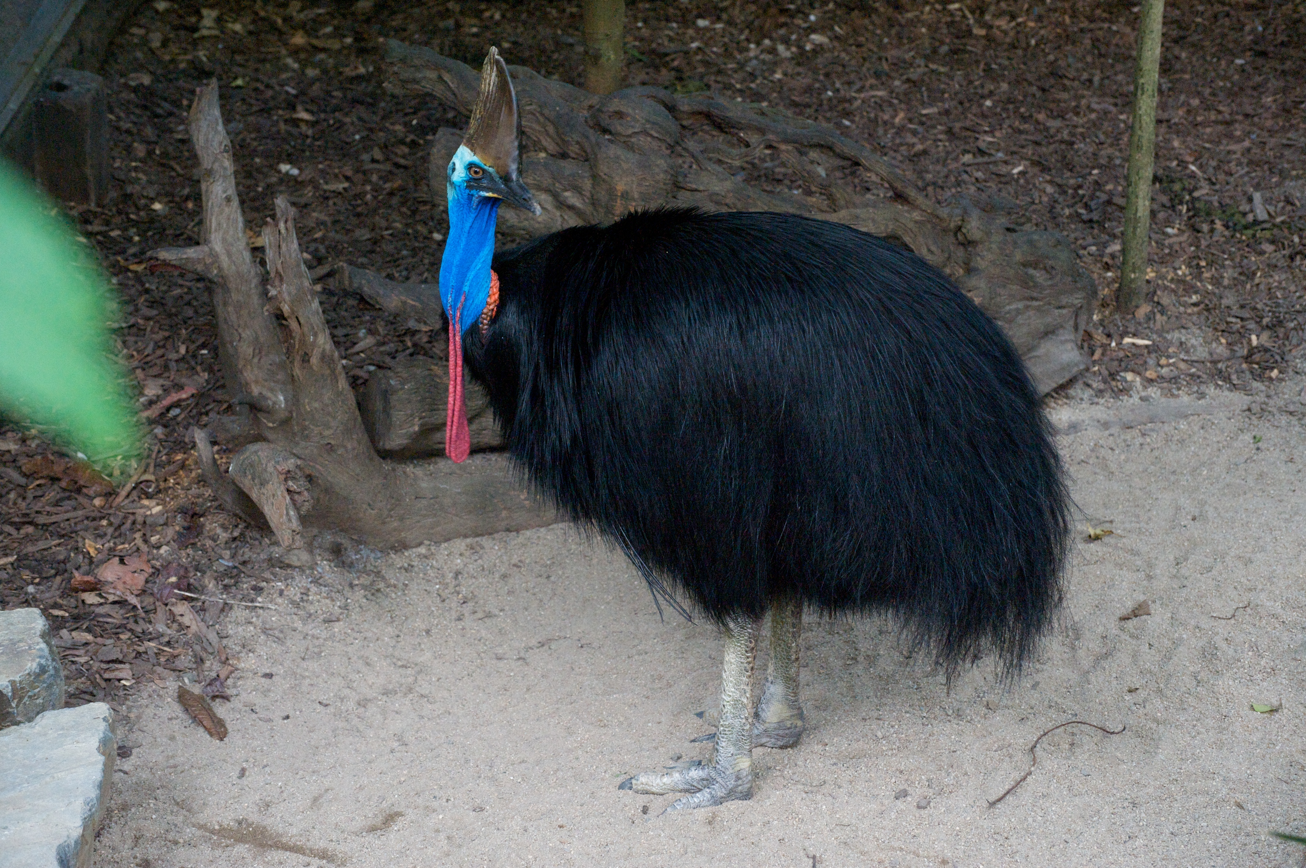 Southern Cassowary (also known as Double-wattled Cassowary, Australian Cassowary and the Two-wattled Cassowary) at Wildlife Habitat, Port Douglas, Australia.